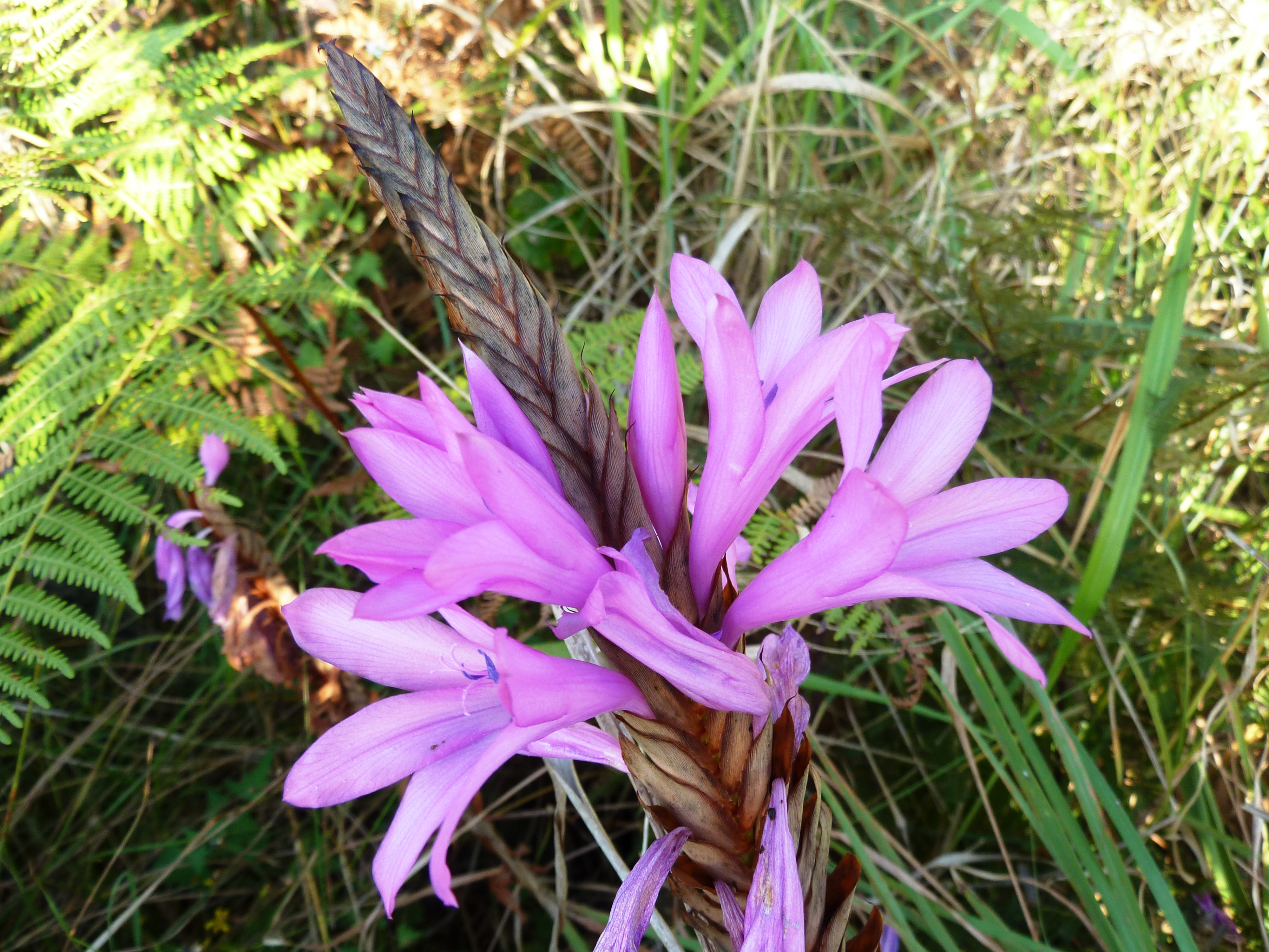 Inflorescence of a Natal watsonia in the Krantzkloof Nature Reserve, KwaZulu-Natal. As its name indicates the spike has a dense arrangement of flowers and dry bracts.